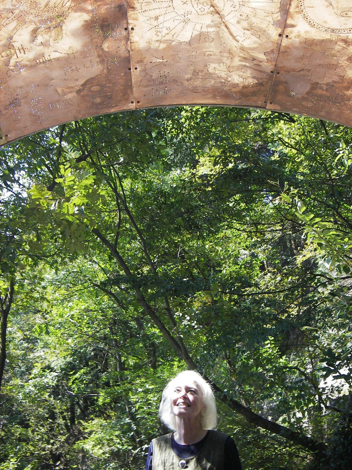 Canopy for Li-Bai on Mount Loushan